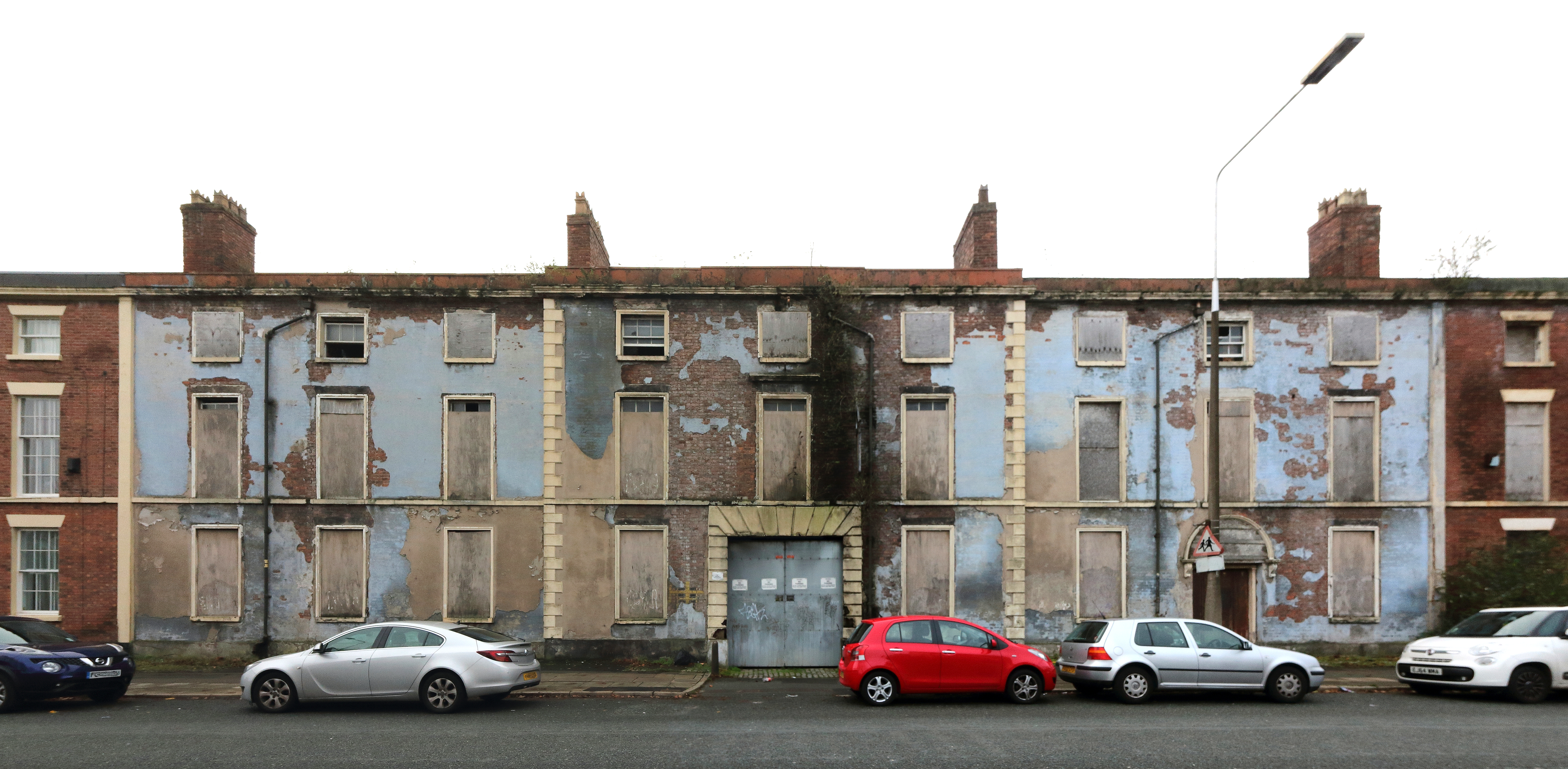 Grade II listed houses, 1830s. Composite image taken across Everton Road of the former drill hall of the 19th Lancashire Volunteers, later a TA centre and karate club.